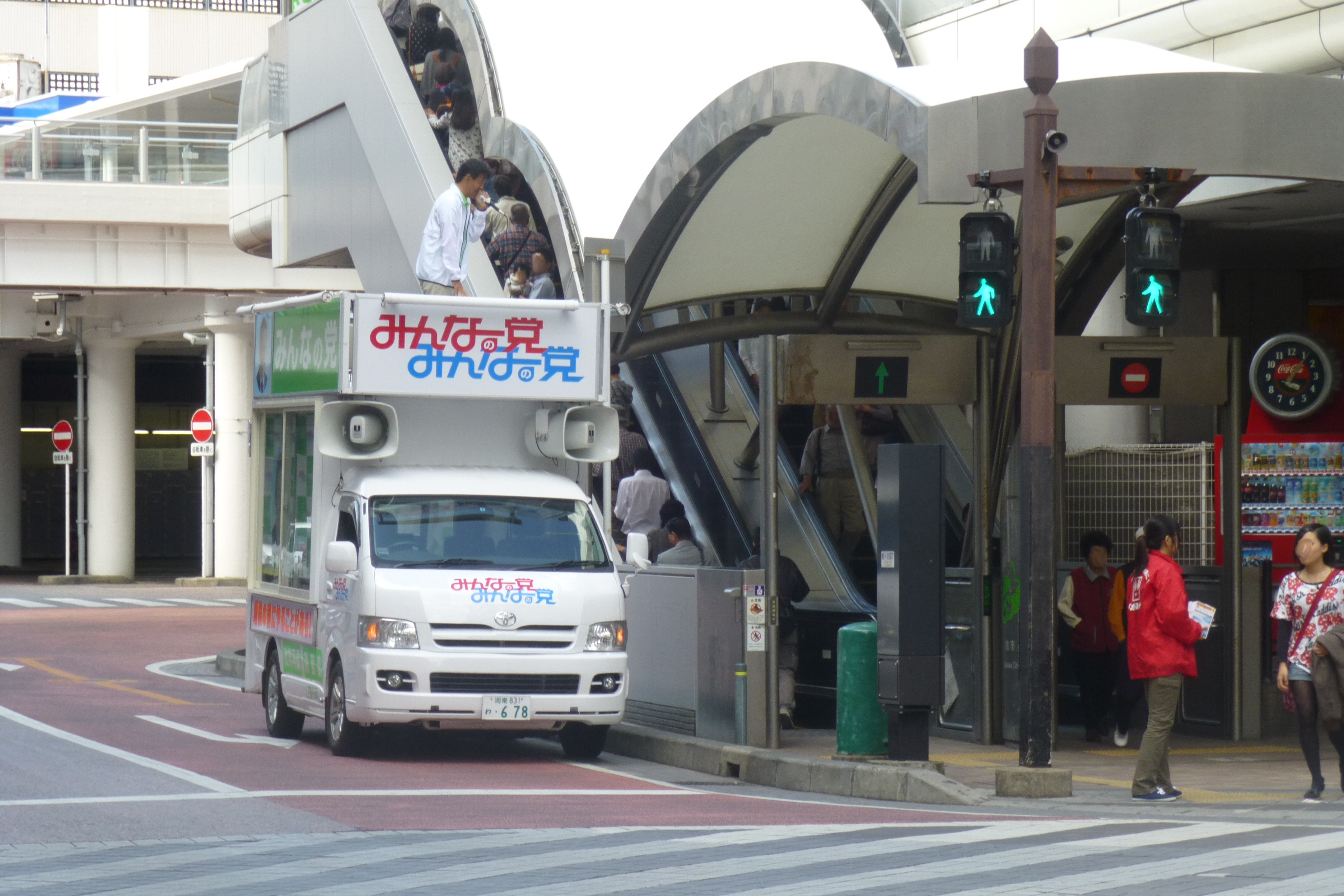 Your Party (Minna no Tō) truck